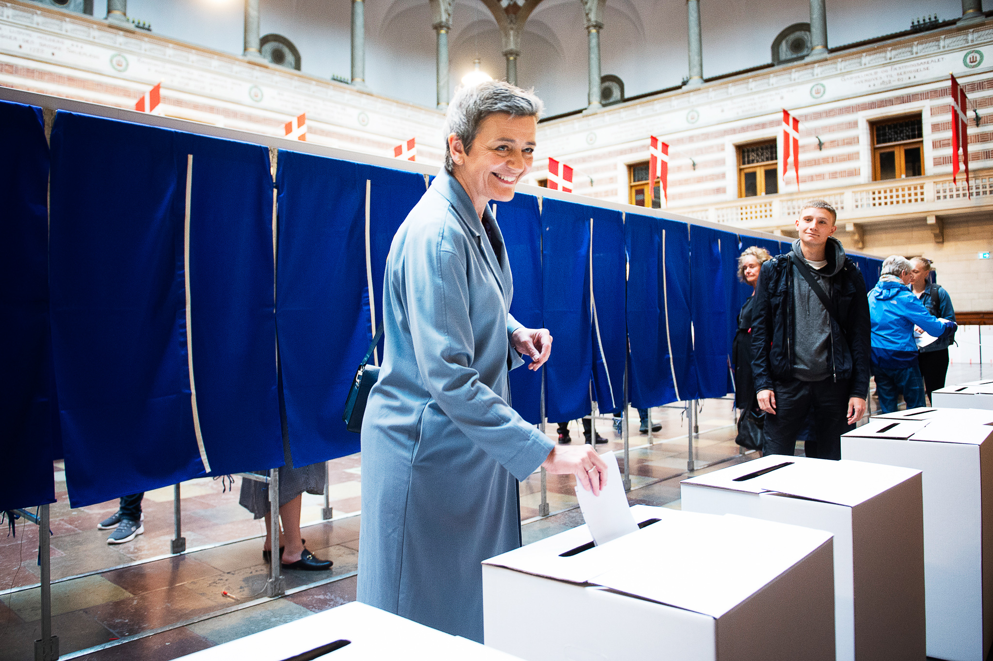 Find more pictures at Copyright: © European Union 2019 - Source : EP